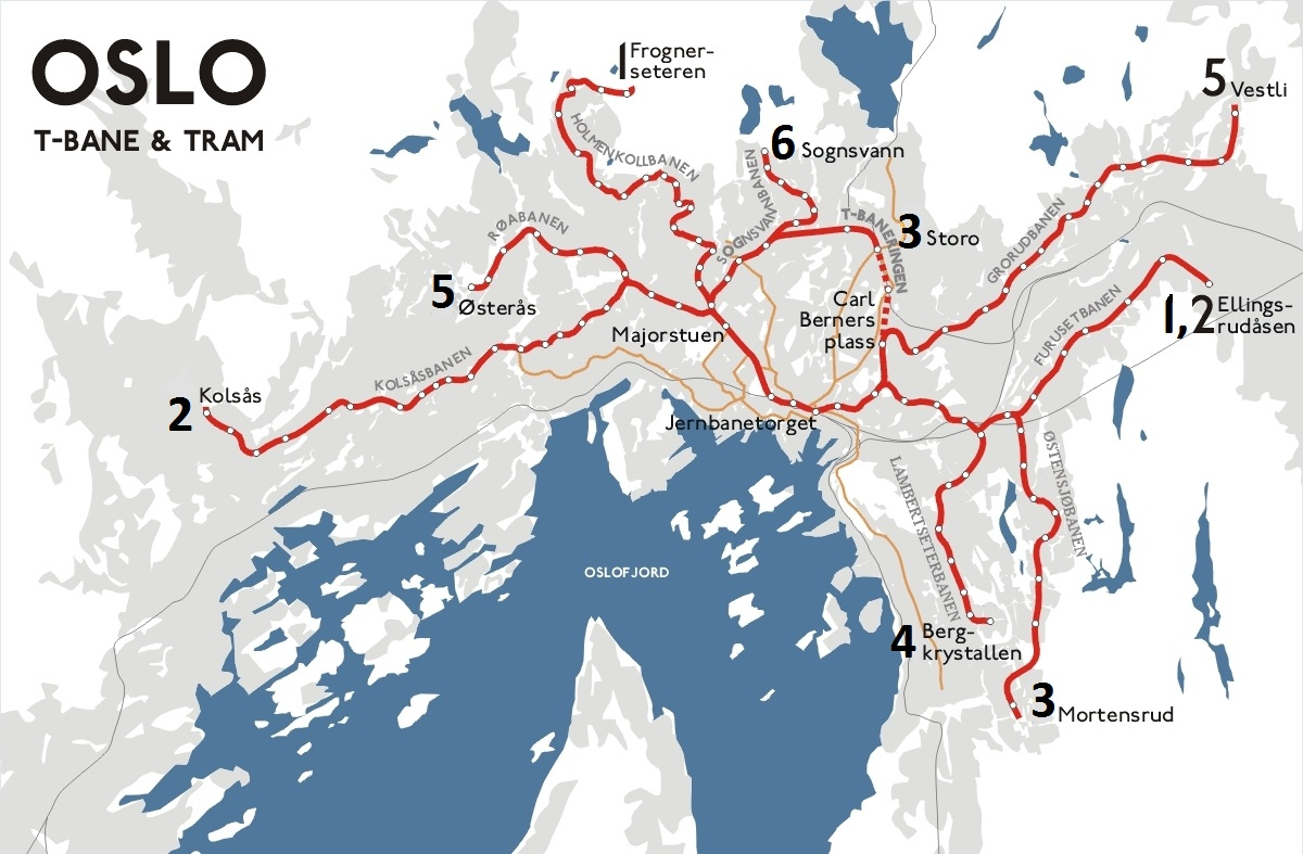 Map of the Oslo Metro (red) following the route change of 9 December 2012. The fainter orange lines show the tram network.